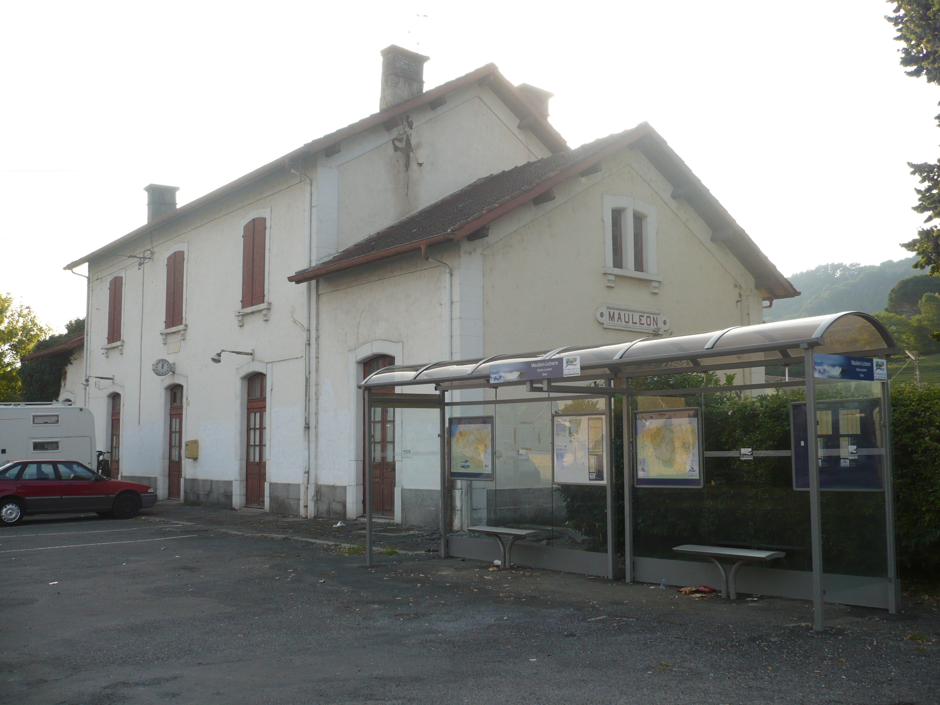 Old Maule (fr Mauléon) train station, Maule-Lextarre, Zuberoa-Soule, Basque Country. Now the city's bus station is located outside it.